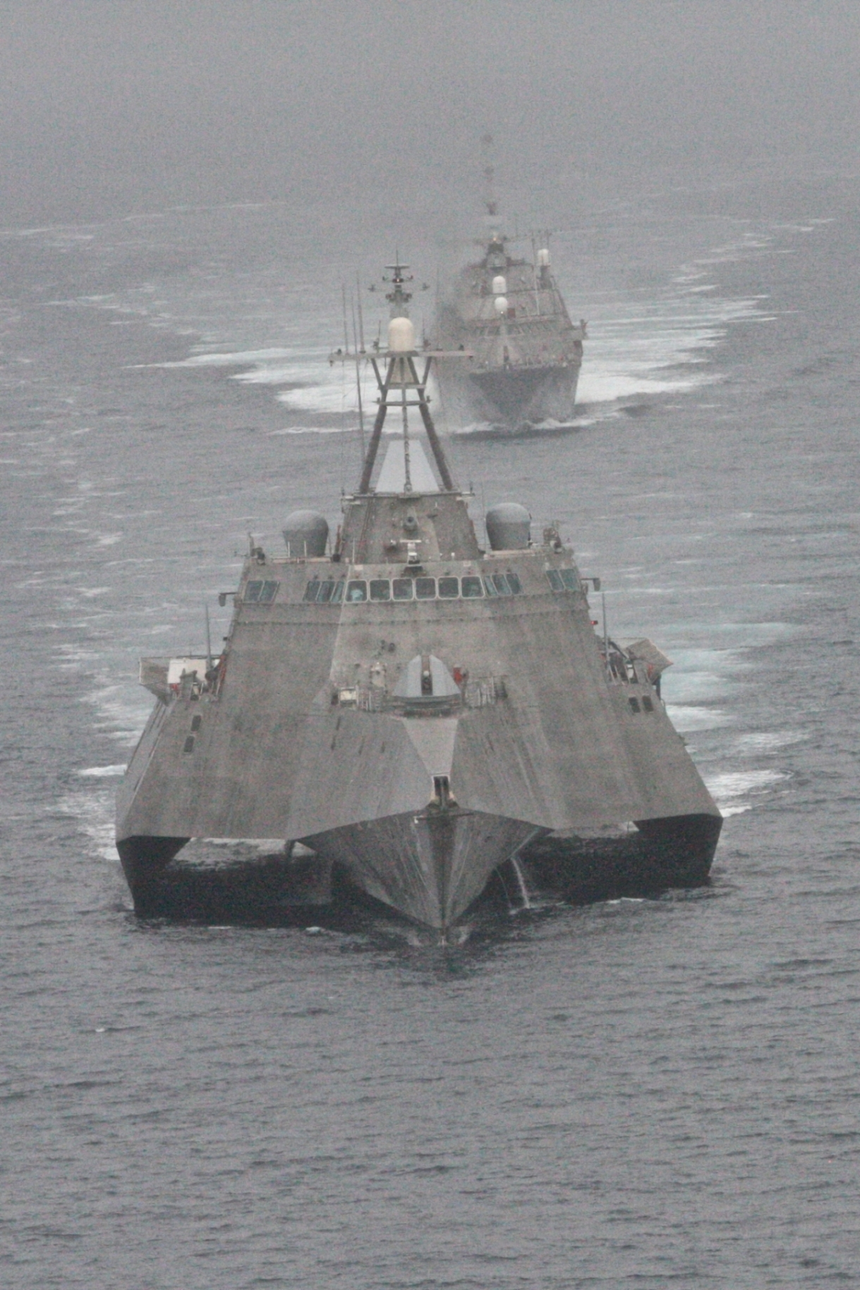 SAN DIEGO (May 2, 2012) The first of class littoral combat ships USS Freedom (LCS 1), rear, and USS Independence (LCS 2) maneuver together during an exercise off the coast of Southern California. The littoral combat ship is a fast, agile, networked surface combatant designed to operate in the near-shore environment, while capable of open-ocean tasking, and win against 21st-century coastal threats such as submarines, mines, and swarming small craft. (U.S. Navy photo by Lt. Jan Shultis/Released) 120502-N-ZZ999-015 Join the conversation navylive.dodlive.mil